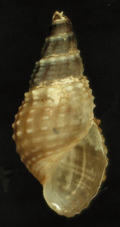 And apertural view of the shell of adult Tarebia granifera from Lake St Lucia, KwaZulu-Natal, South Africa. The height of the shell is 22.0 mm.